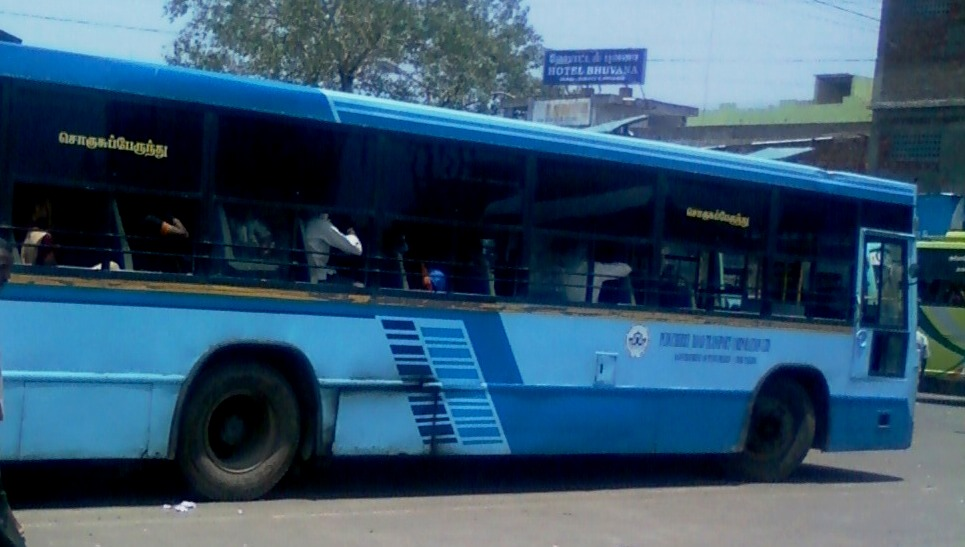 PRTC bus in Puducherry.